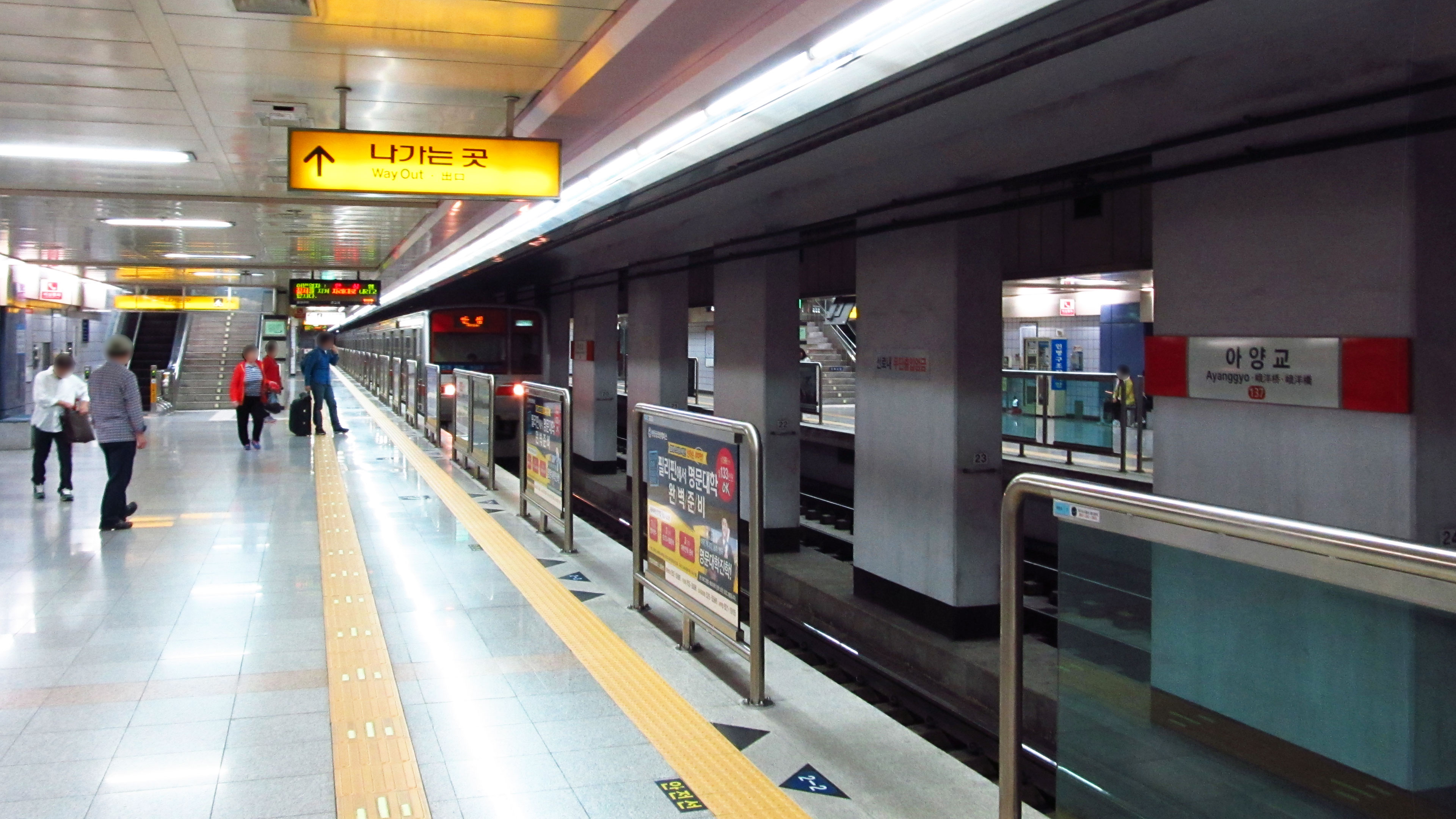 The platform of Ayanggyo Station on the Daegu Metro Line 1, for Dongchon, Ansim